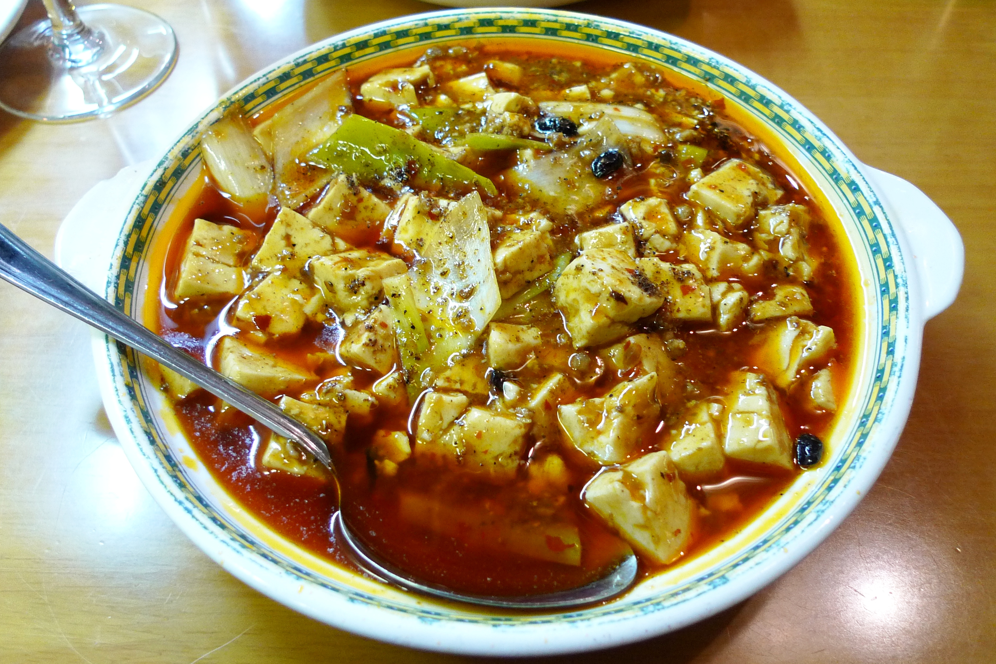 Ma Po tofu, a really lovely dish. At Chilli Cool, Leigh Street.